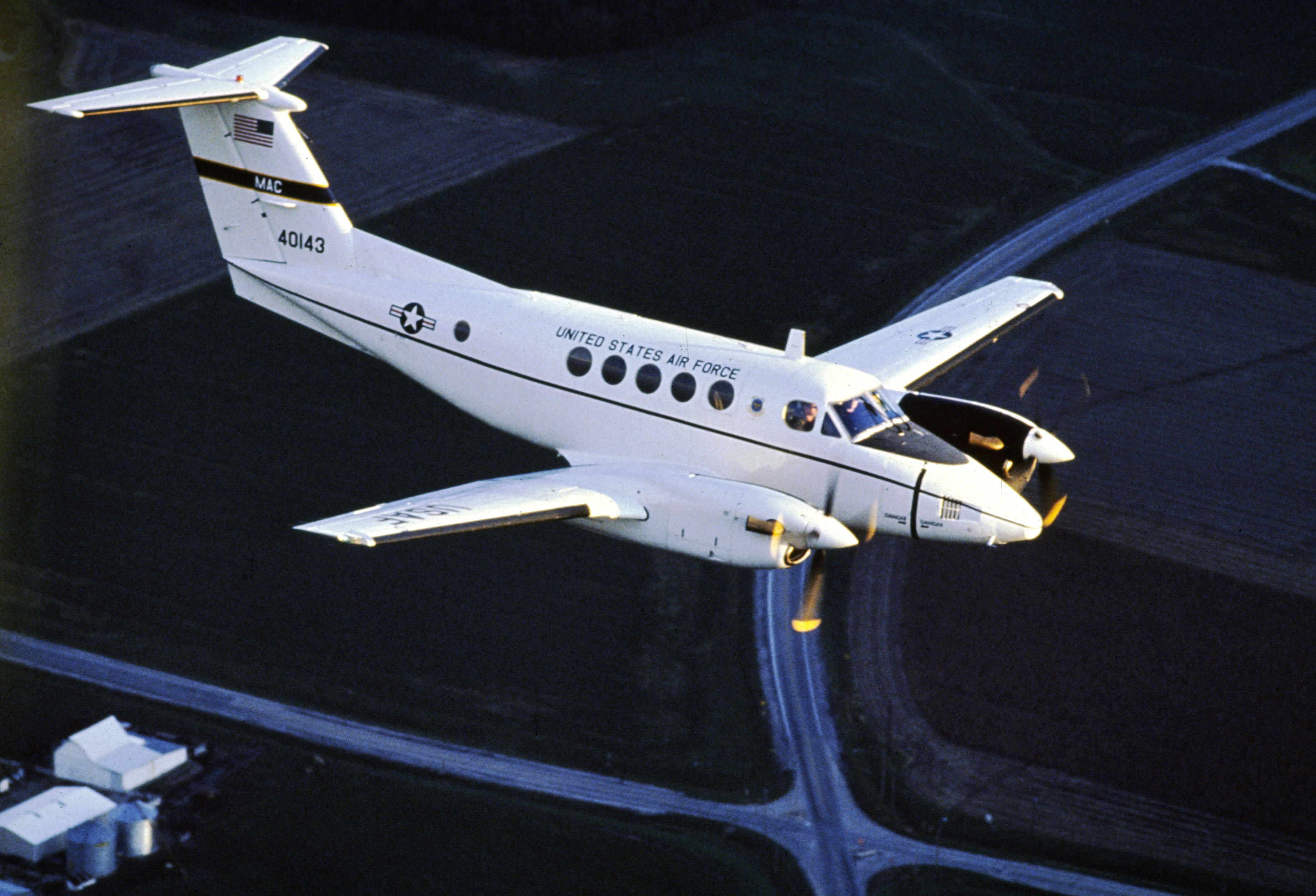 A U.S. Air Force Beech C-12F Huron (s/n 84-0143) in flight.